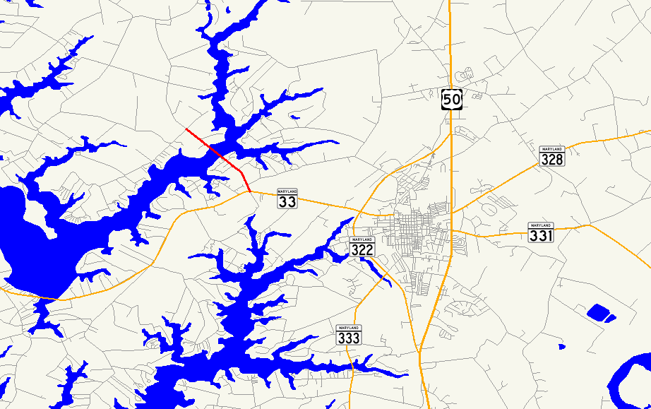 Map of Maryland 370